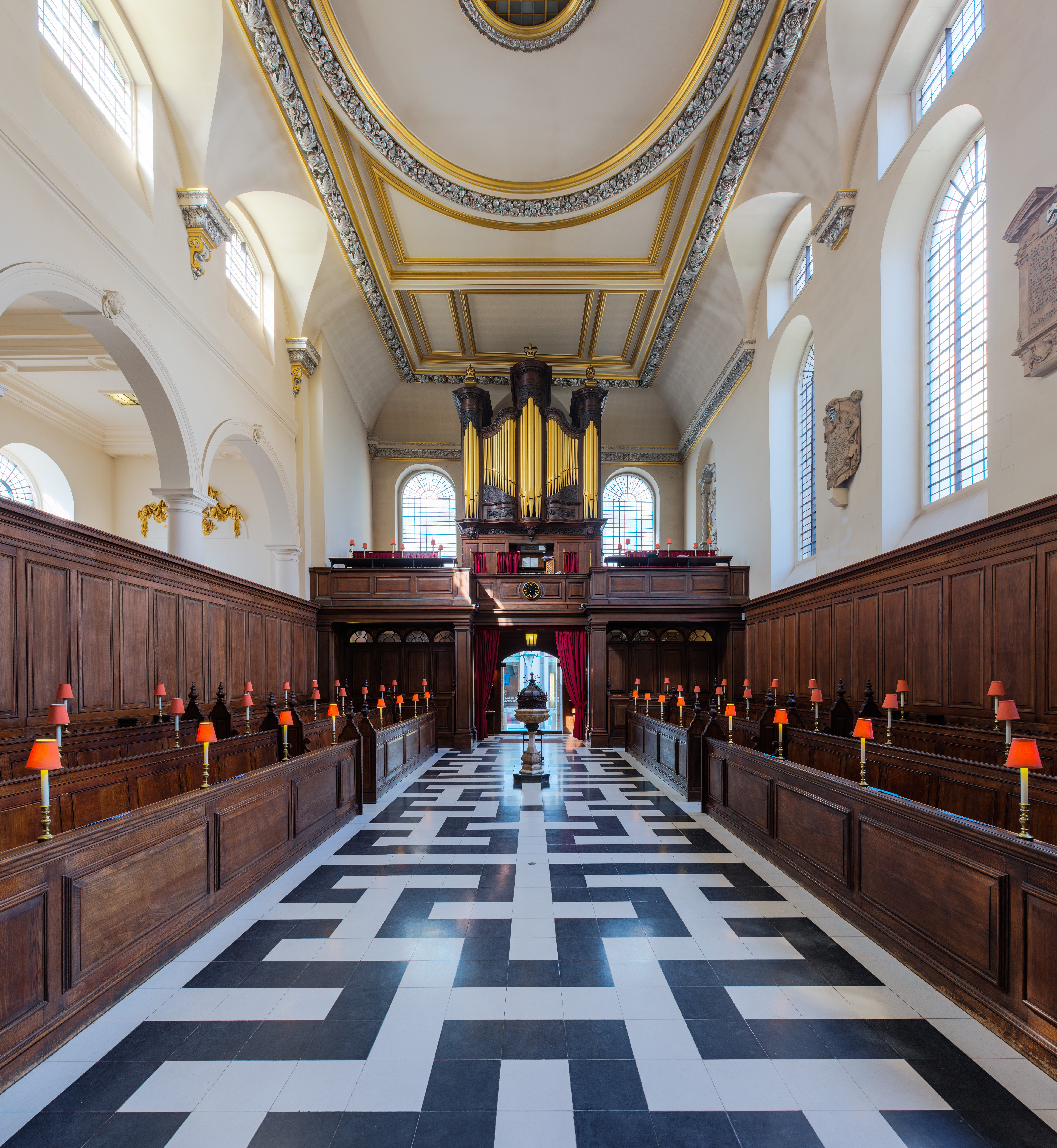 The interior of St Vedast Foster Lane Church, facing the organ and entrance.